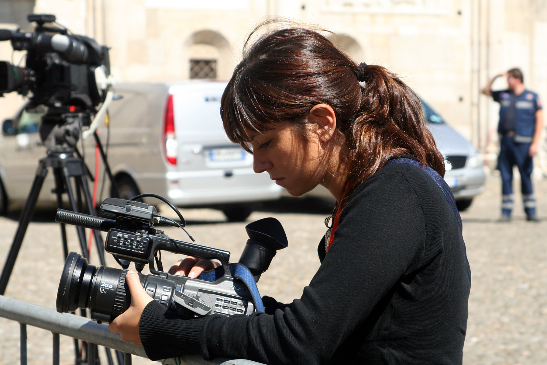 A woman videojournalist in Modena, Italy.